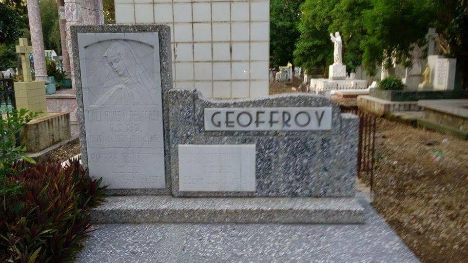 Tumba de Pedro Geoffroy Rivas